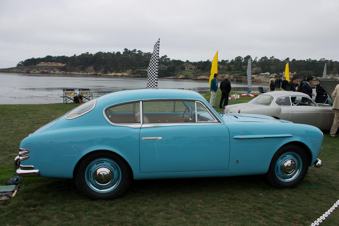 In 1937 the Maserati brothers sold the company to the Orsi family but continued to work for the factory until 1947. One of the legacies the Maseratis left was a newly designed straight-6 1.5-liter engine that found its way into Maserati's first Grand Tourer. Dubbed A6, the new Maserati debuted at the 1947 Geneva Motor Show; but with poor performance, a high price and conservative styling, it did not sell well. Three new versions with a new 2-liter engine, the A6G, were introduced at the 1951 Paris Motor Show as a Frua Spyder, a Vignale Coupe and Pinin Farina Berlina. This latter Pinin Farina design, as seen here (chassis AM2020), would become the standard body for the A6G. Again due to its high price, only 16 examples were built. Photograph taken at the 2014 Pebble Beach Concours d'Elegance in Pebble Beach, California.